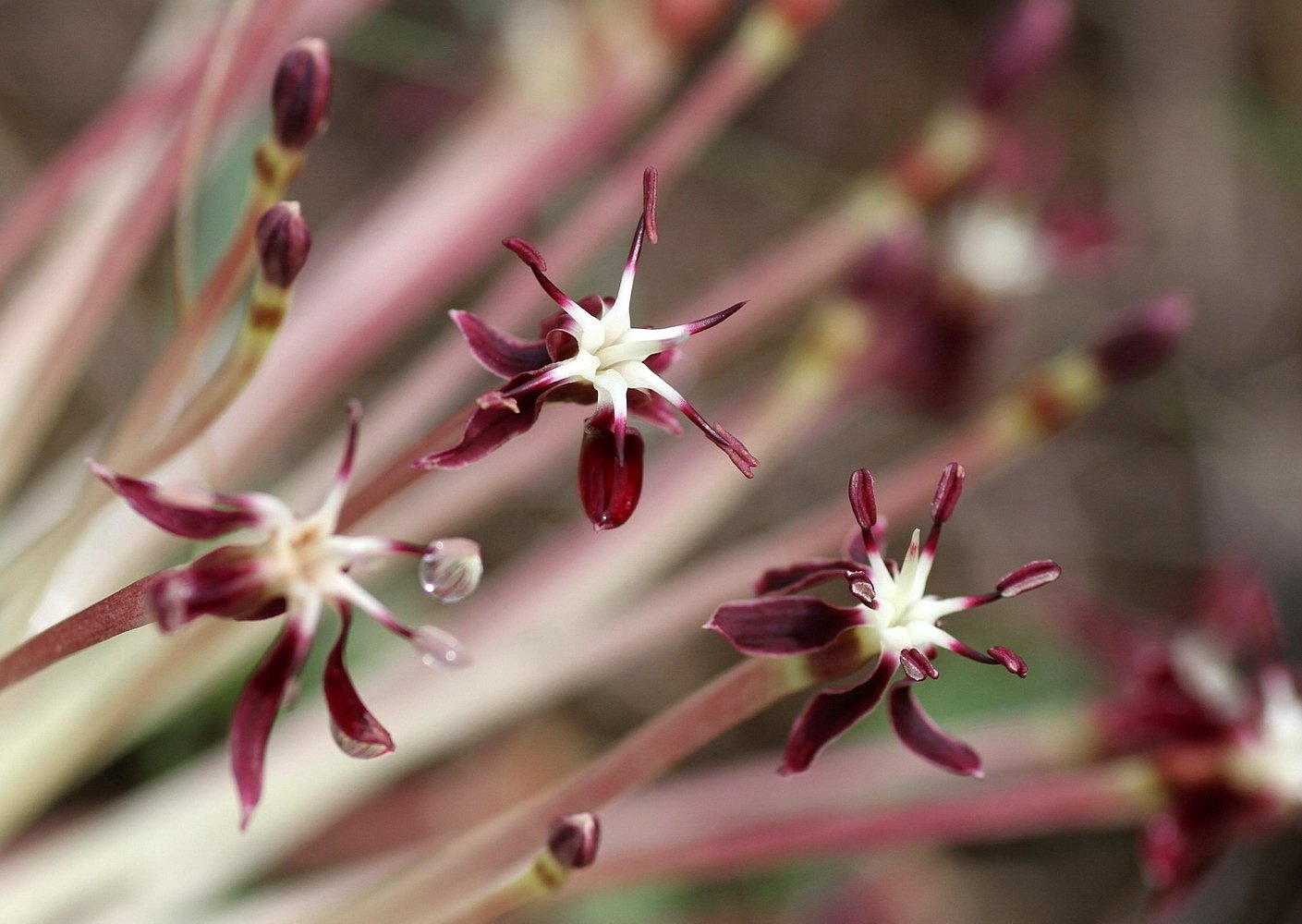 South Africa. Bontebok National Park. March 2010